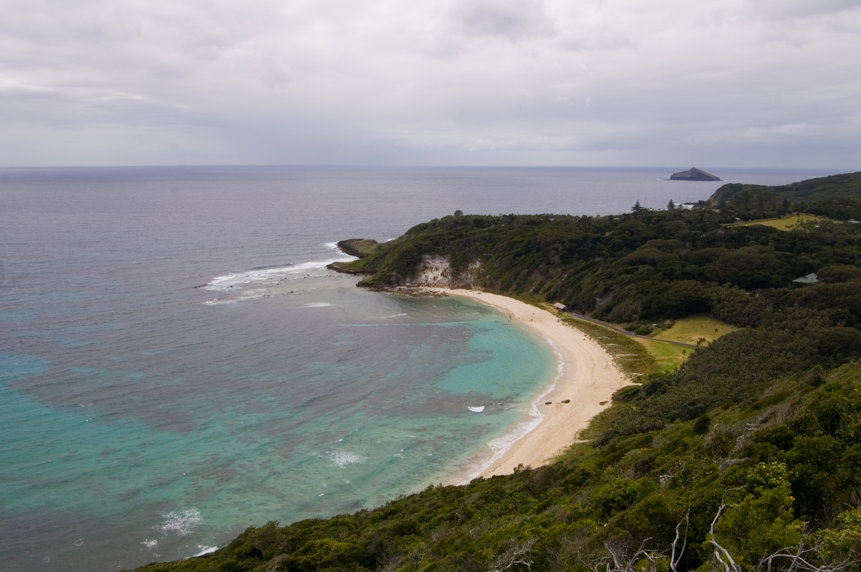 Lord Howe Island, Malabar Hill (North).